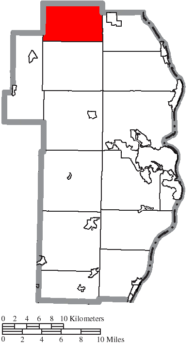 Map of the municipal and township boundaries of Jefferson County, Ohio, United States, as of the 2000 census, with the location of Brush Creek Township highlighted. Township borders are shown only in unincorporated areas in order to differentiate incorporated and unincorporated areas more clearly.